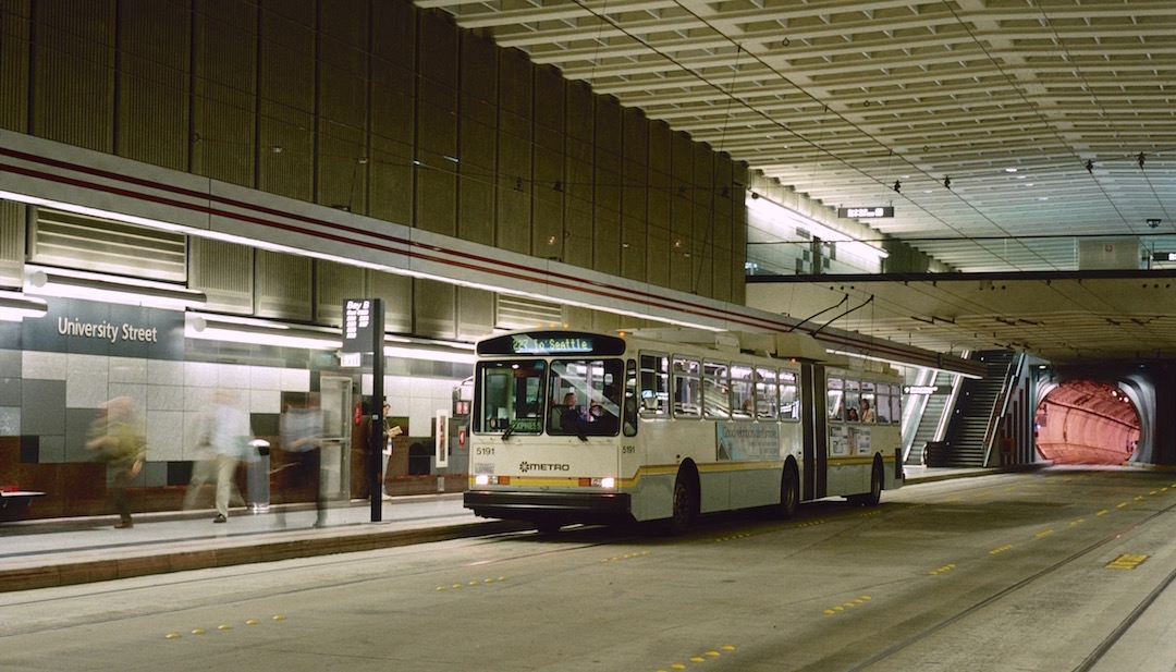 Breda-built dual-mode bus 5191, of Seattle's Metro Transit, northbound at University Street station in the Downtown Seattle Transit Tunnel, in 1994. No. 5191 was nearing the end of an inbound trip on route 227. (Metro was not yet part of King County government at that time.)